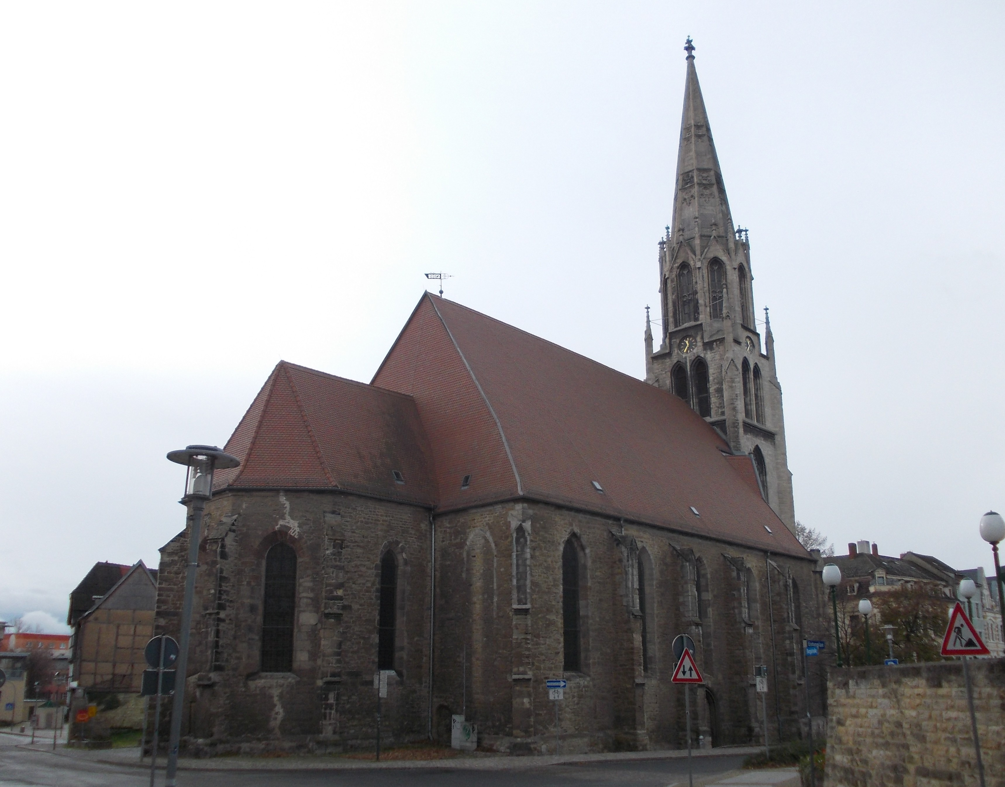 St. Maximus' Church in Merseburg (district: Saalekreis, Saxony-Anhalt)